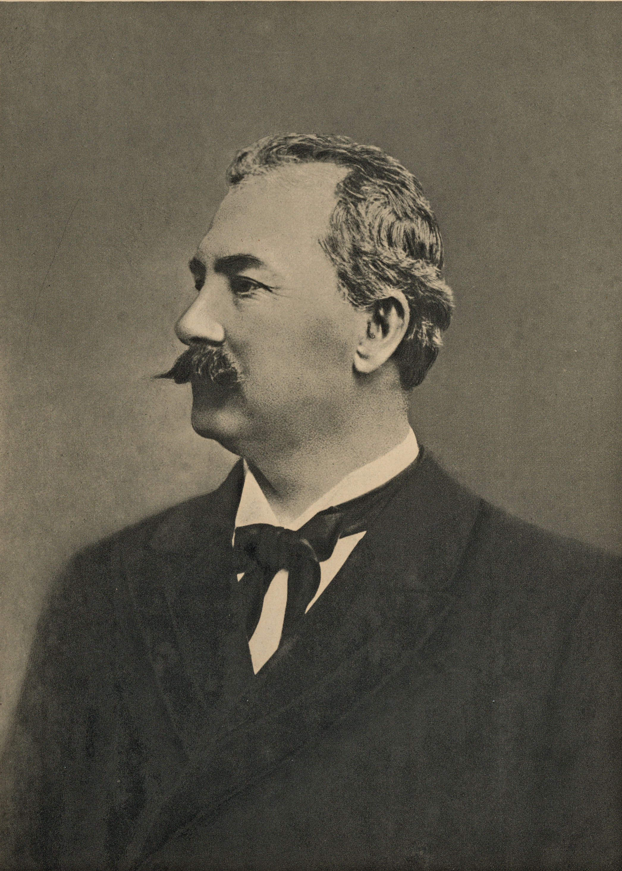 Lithograph after photograph.